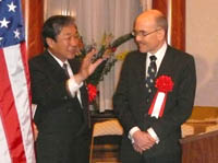 Hirotaka Akamatsu, Minister of Agriculture, Forestry and Fisheries, met James Zumwalt, Deputy Chief of Mission, at the Reception of the Japan Agricultural Exchange Council in Tōkyō Metropolis on March 9, 2010.